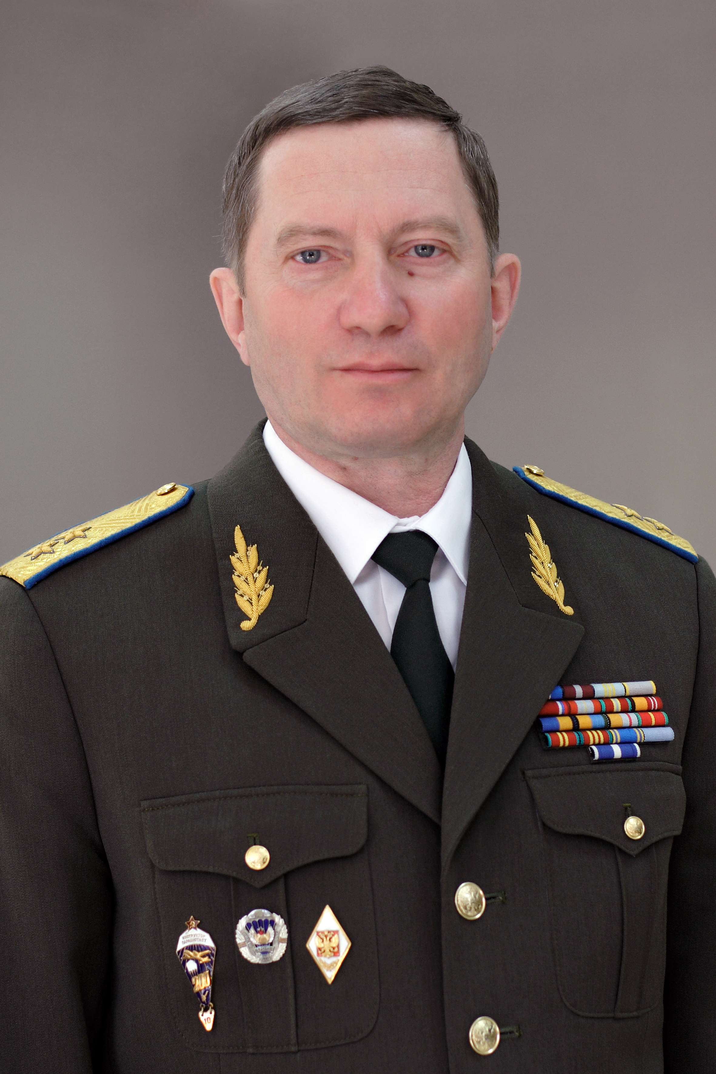 17th Russian Airborne Troops Commander-in-Chief, Lt. Gen. Valery Yevtukhovich (in office: November 19, 2007 – May 6, 2009.)